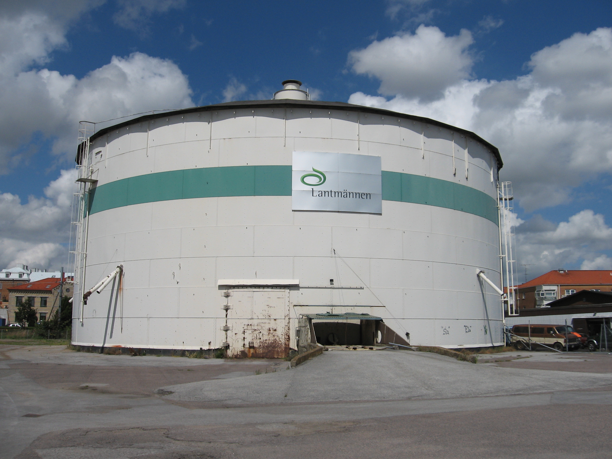 Raw sugar silo, Weibull silo, in Ystad.